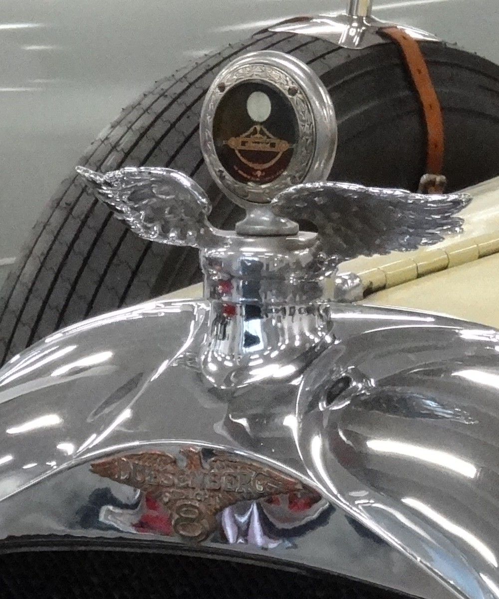 Duesenberg Straight 8 (Model A) badge and moto meter